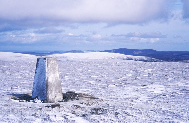 Carn Mor summit. The summit of Carn Mor (804m) Just a slightly higher piece of tundra.